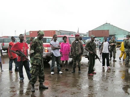 LURD Gen. Mohammed Sheriff alias Cobra, with his guards in Monrovia